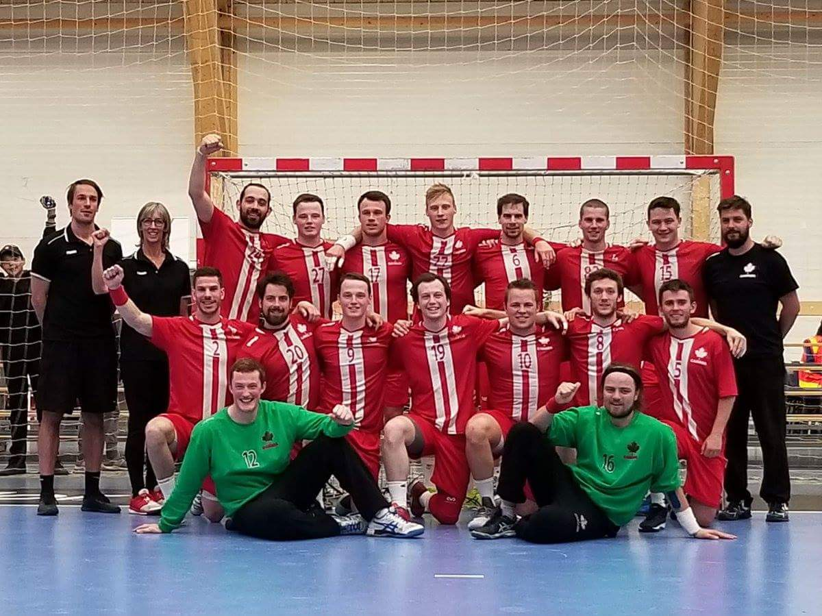 The Canadian Men's Handball Team in Nuuk, Greenland